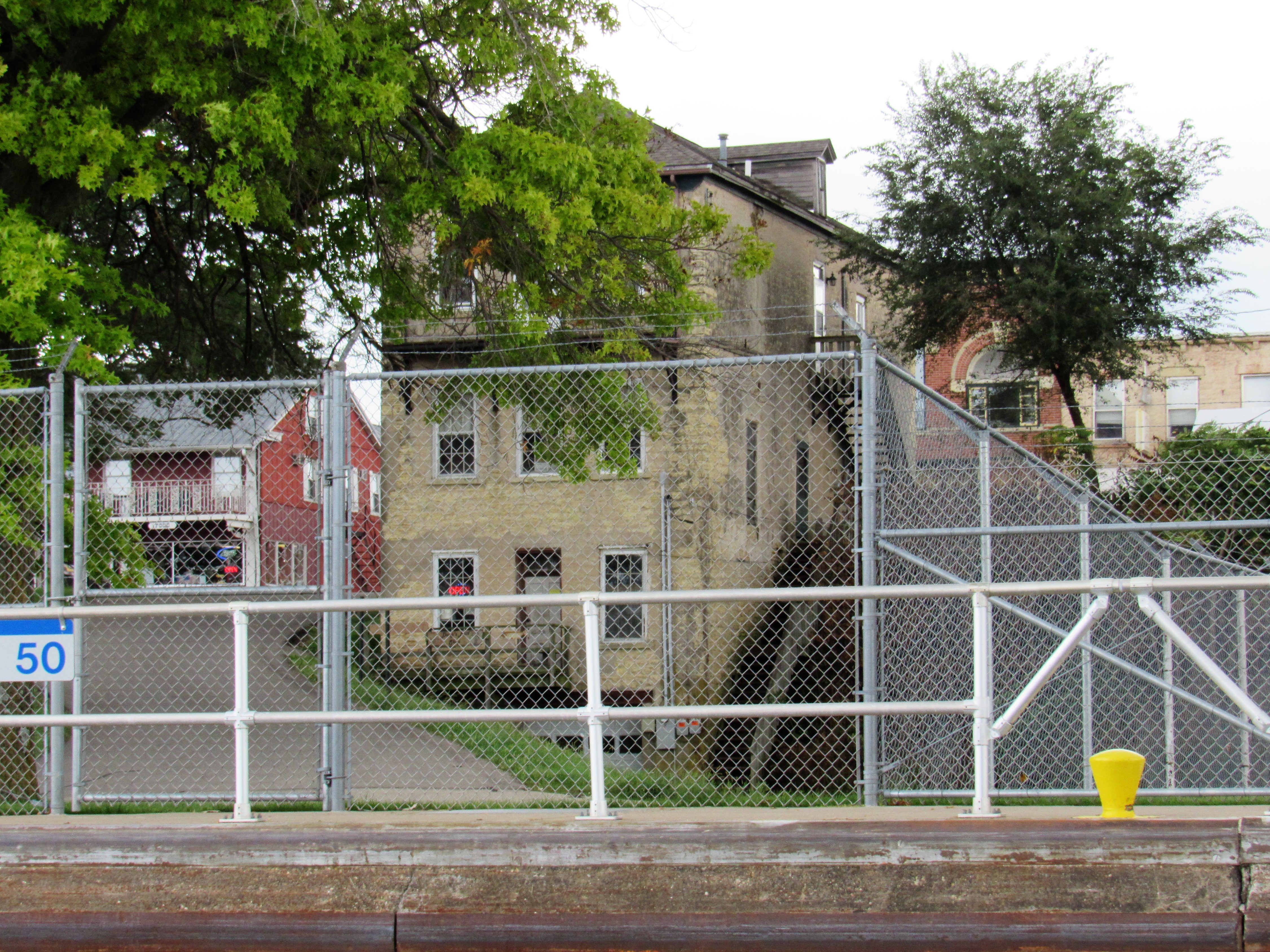 The rear elevation of the Building at 101 North Riverview Street in Bellevue, Iowa from the Mississippi River.